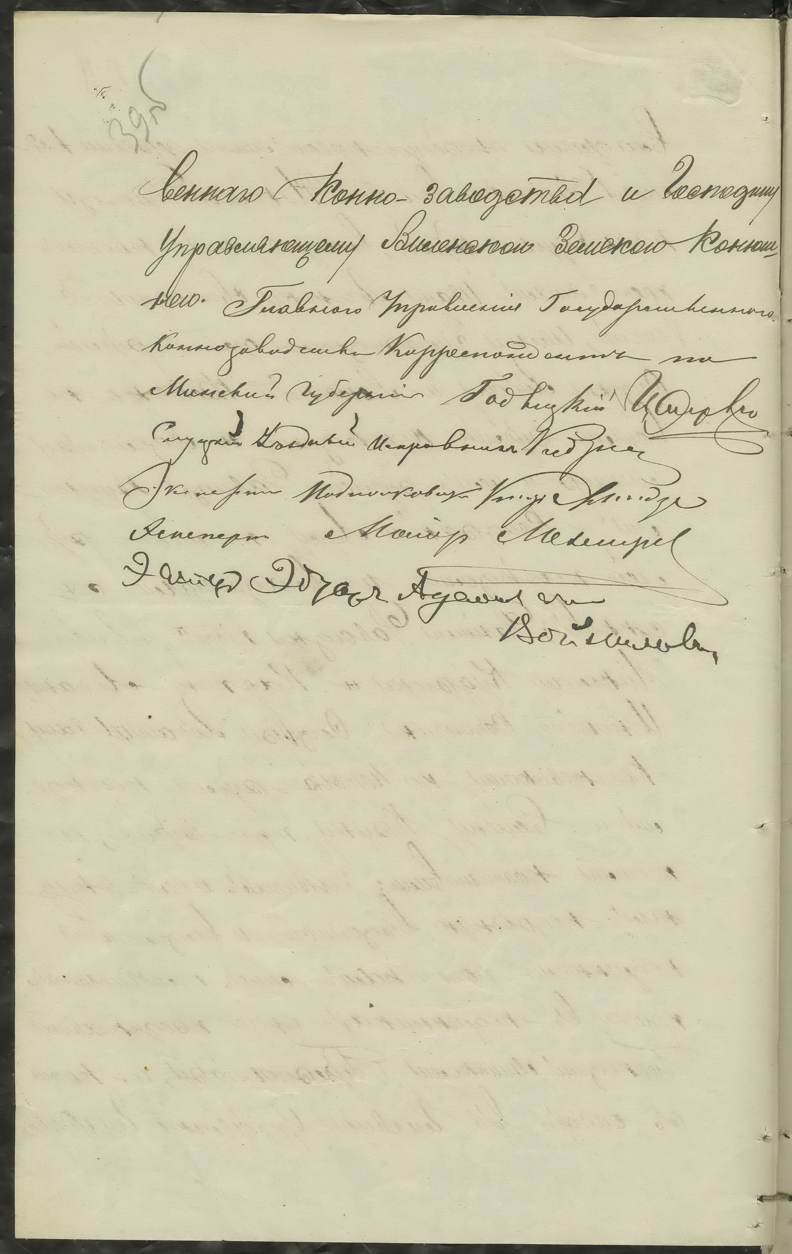 Document of an exhibition of horses in Cimakawiczy (Sluck district of Minsk province, Russian empire), 1 October 1881 AD. Edward Woynillowicz (1847-1928)'s autograph as an expert in the list